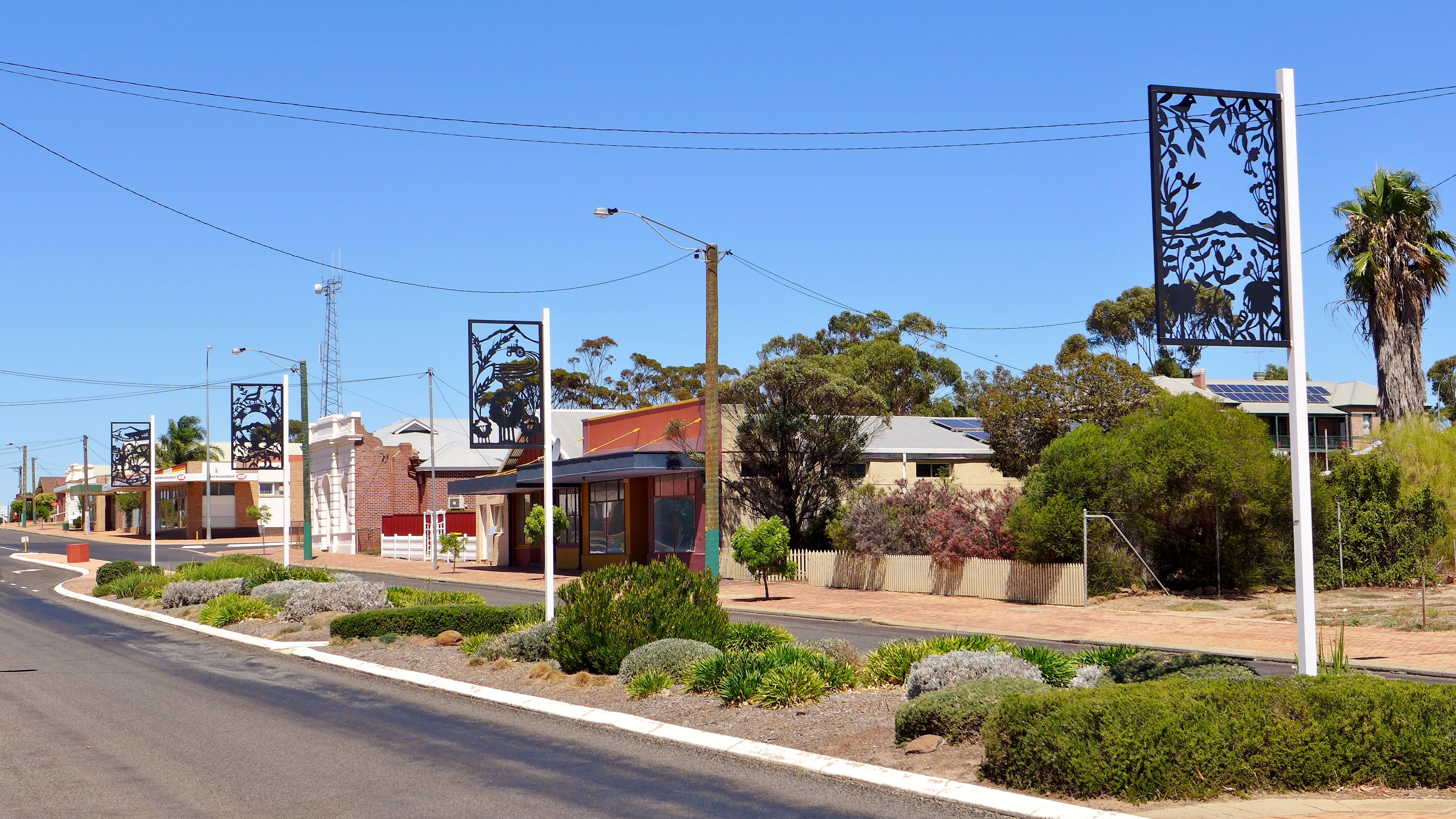 View of Yougenup Road, the main street of Gnowangerup, Western Australia